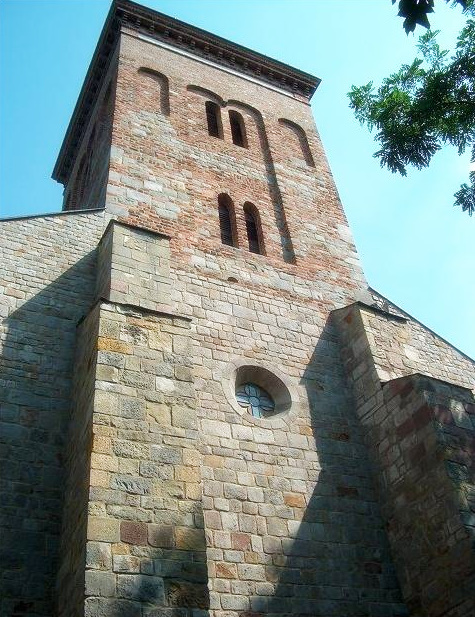 Kolegiata w Kruszwicy